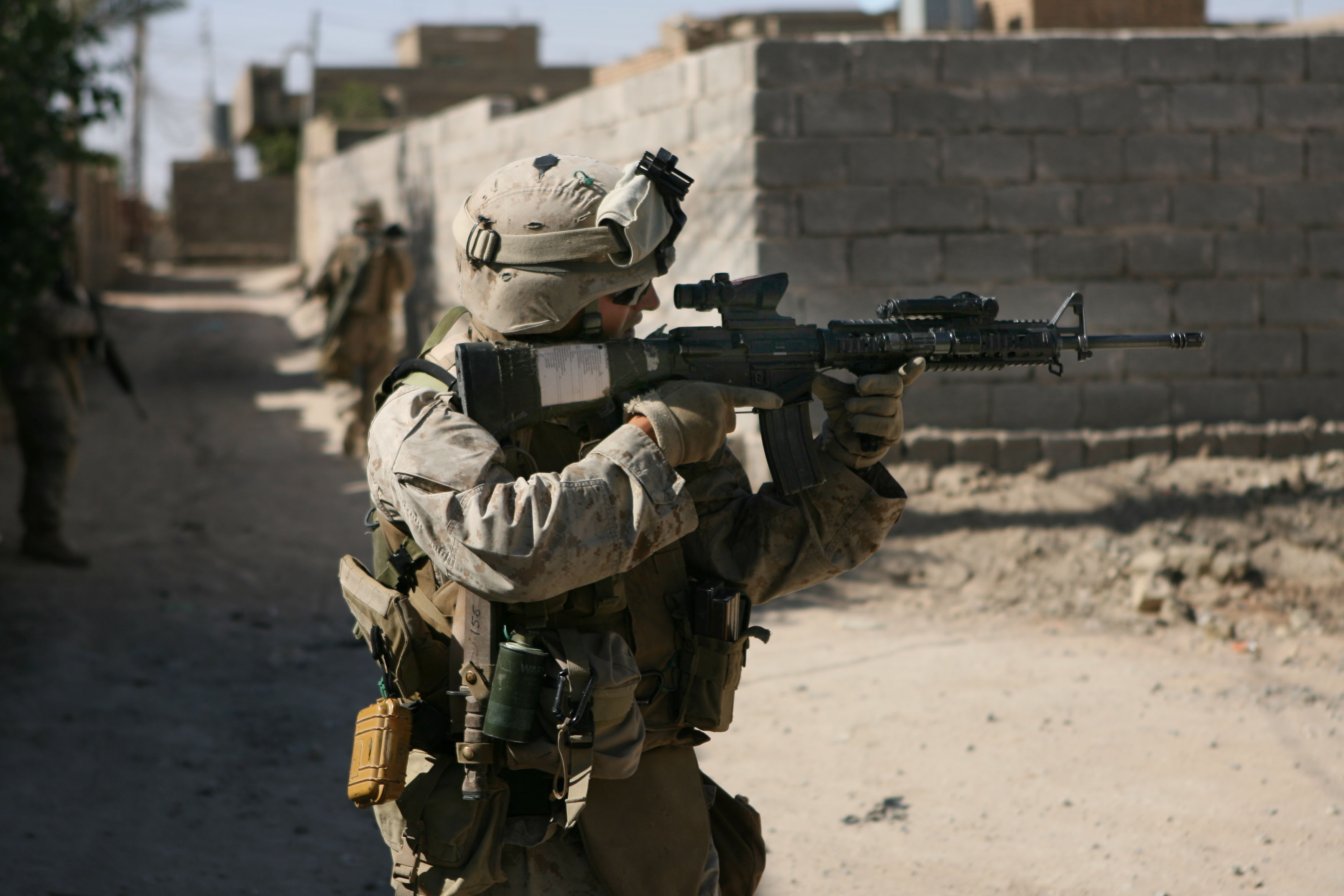 Pfc. Steven G. Ramirez, along with Marines from B Company, 1st Battalion, 1st Marine Regiment conduct security patrols in Gharmah, Iraq. The Marines maintain a constant presence in the town to thwart insurgent activities. Photo by: Cpl. William Skelton